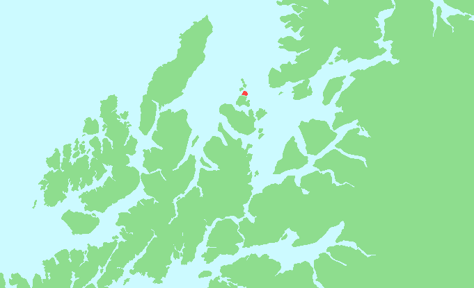 Locator map of Helløya, Troms, Norway